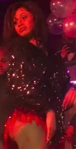 Cardi B performing in 2018